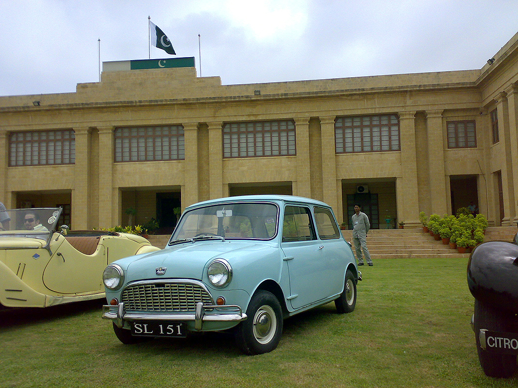 This is my 1963 Mini 850 mk1, seen here at Governor House (Sindh) on 14th August 2007 (Pakistan's Independence Day) Mini liked Governor House very much but I decided to take her back. The story of my Mini is as long and interesting as of any good classic car undergone a complete and expensive restoration, the really good thing is that it is completely documented with high resolution pictures, local/foreign expense bills, and various journals/diary. Please ask if you are interested to get more on this.